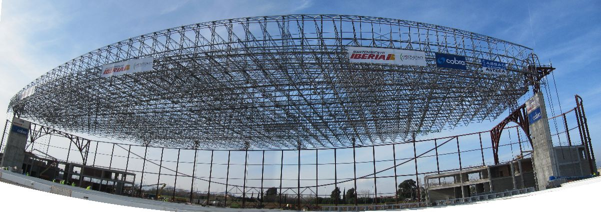 Structure of big hangar made by Asteca for Iberia Airlines